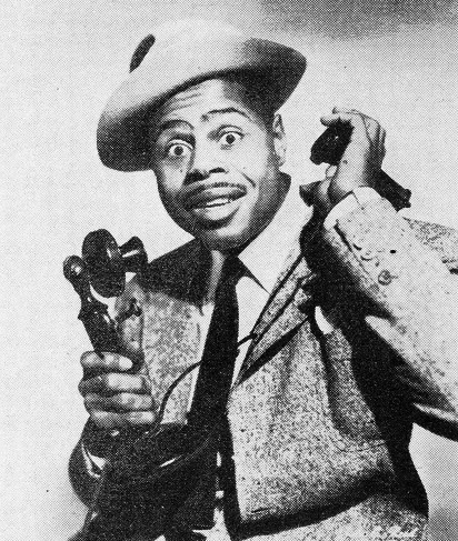 Photo of comedian Wonderful Smith.